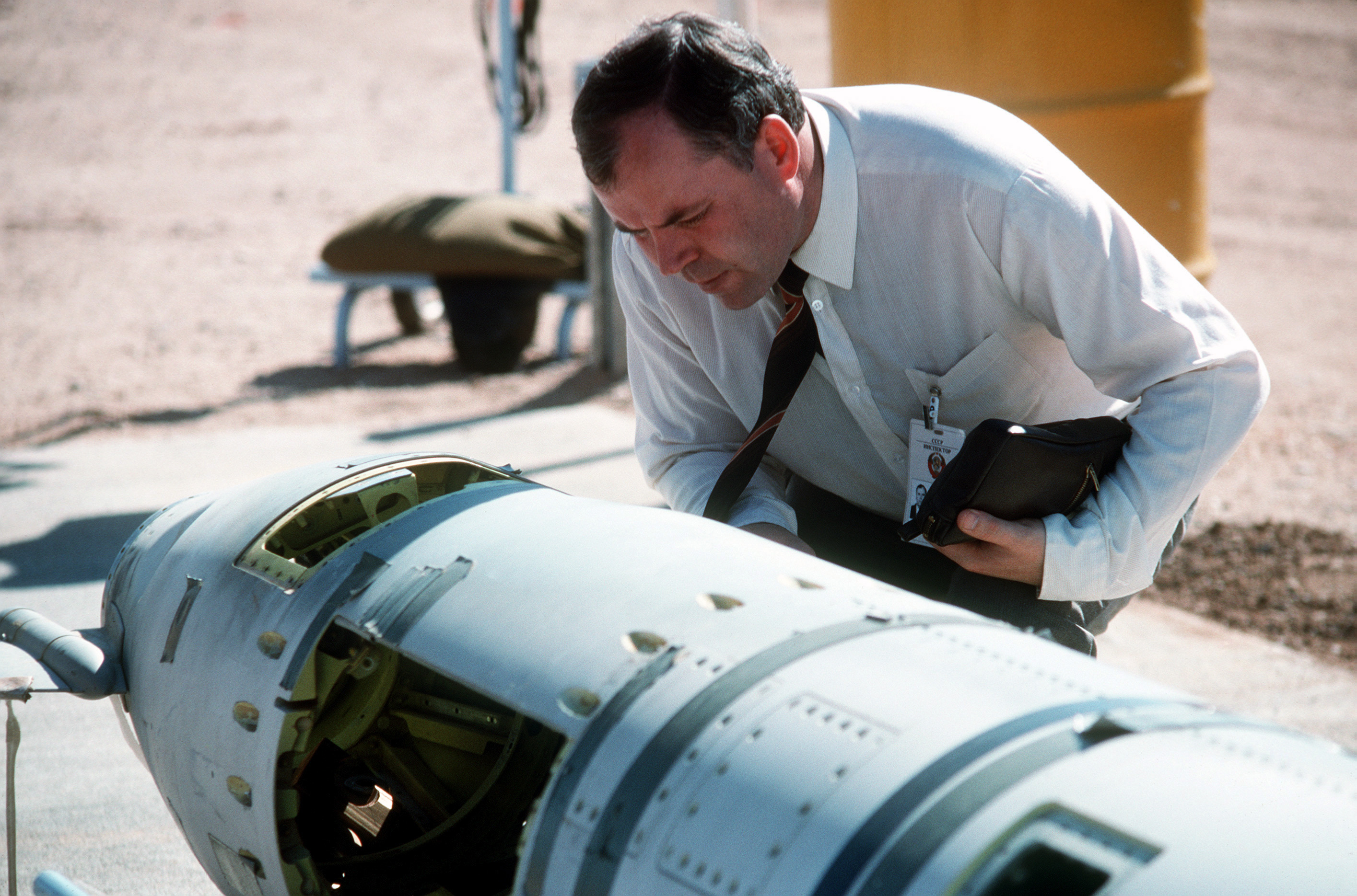 A Soviet inspector examines a BGM-109G Tomahawk ground launched cruise missile (GLCM) prior to its destruction. Forty-one GLCMs and their launch canisters and seven transporter-erector-launchers are being disposed of at the base in the first round of reductions mandated by the Intermediate Range Nuclear Forces Treaty.